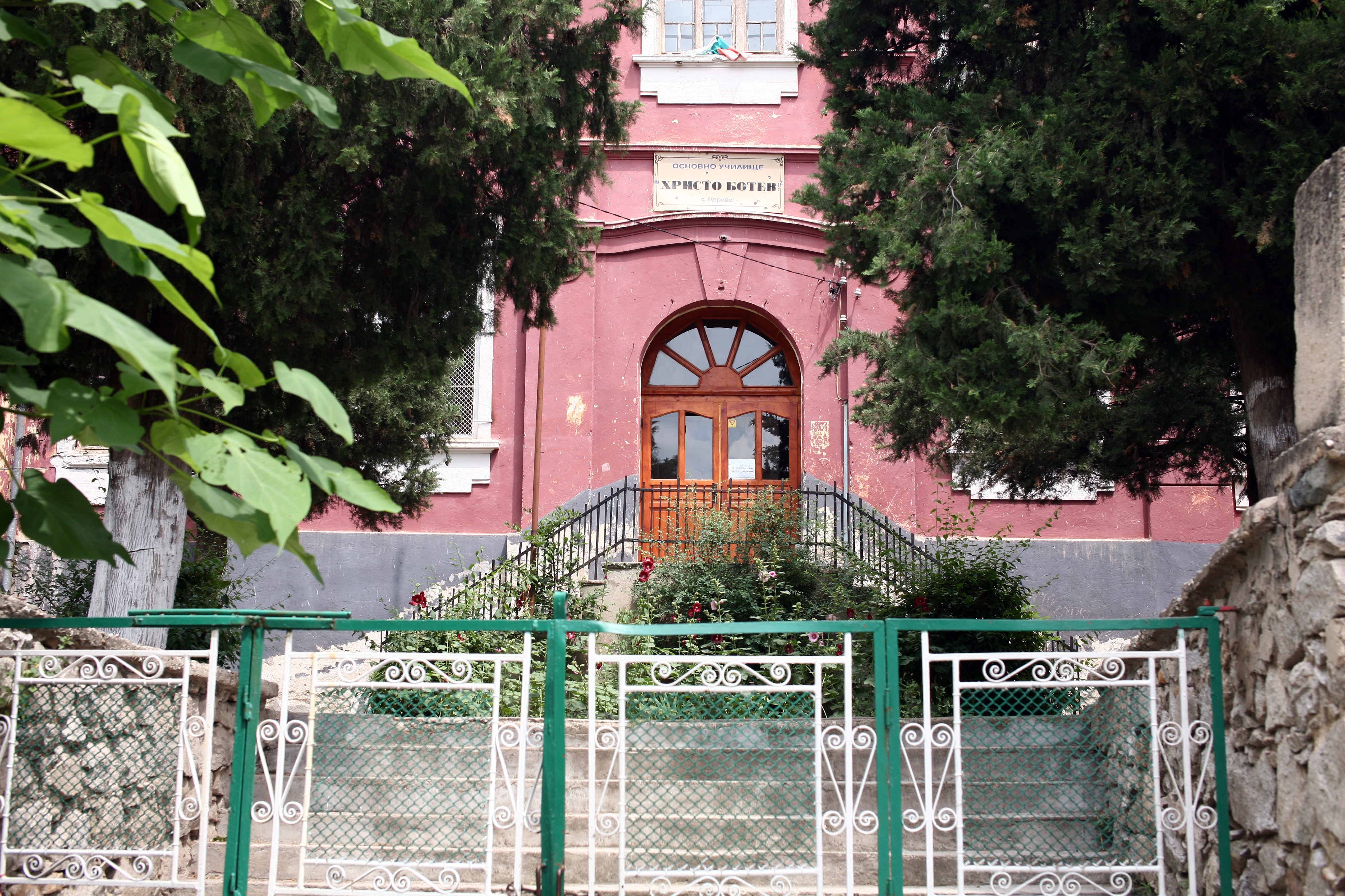 Tserovo, Pazardzhik District, Bulgaria